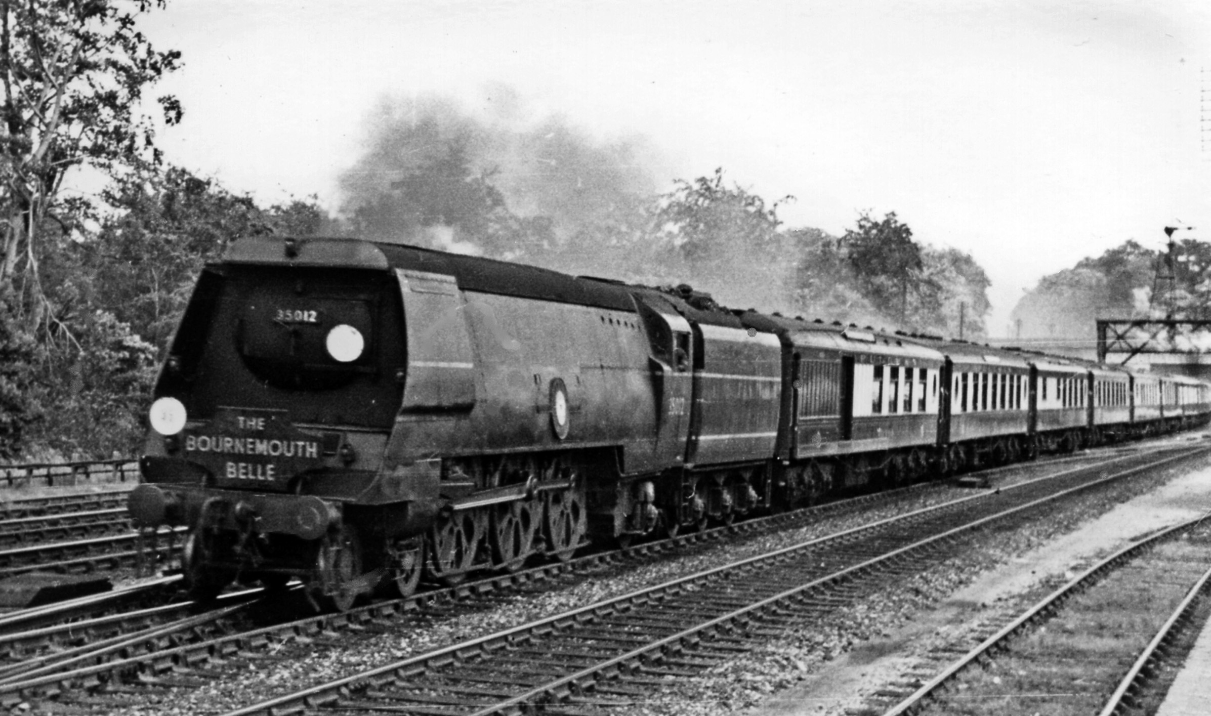 Down 'Bournemouth Belle' passing Farnborough. View eastward, towards London: ex-LSW Waterloo - Basingstoke and the West main line. The 'Bournemouth Belle' was the first Pullman train to be reintroduced after the War, leaving Waterloo at 12.30 it reached Bournemouth West at 14.52. Here Bulleid 'Merchant Navy' No. 35012 'United States Lines' (built 1/45, rebuilt 2/57, withdrawn 4/67) is at its head.